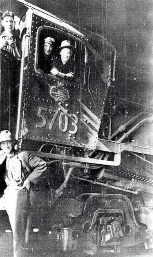 Railway men who were based at the Thirroul Locomotive Depot circa 1930